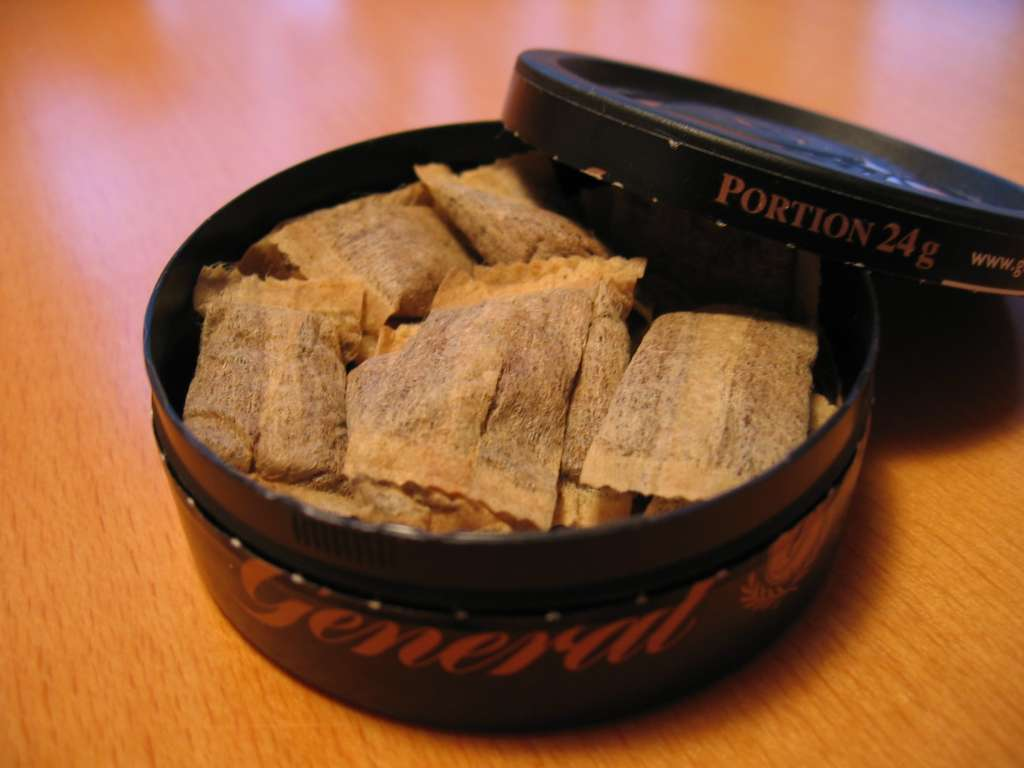 General Snus (portion)